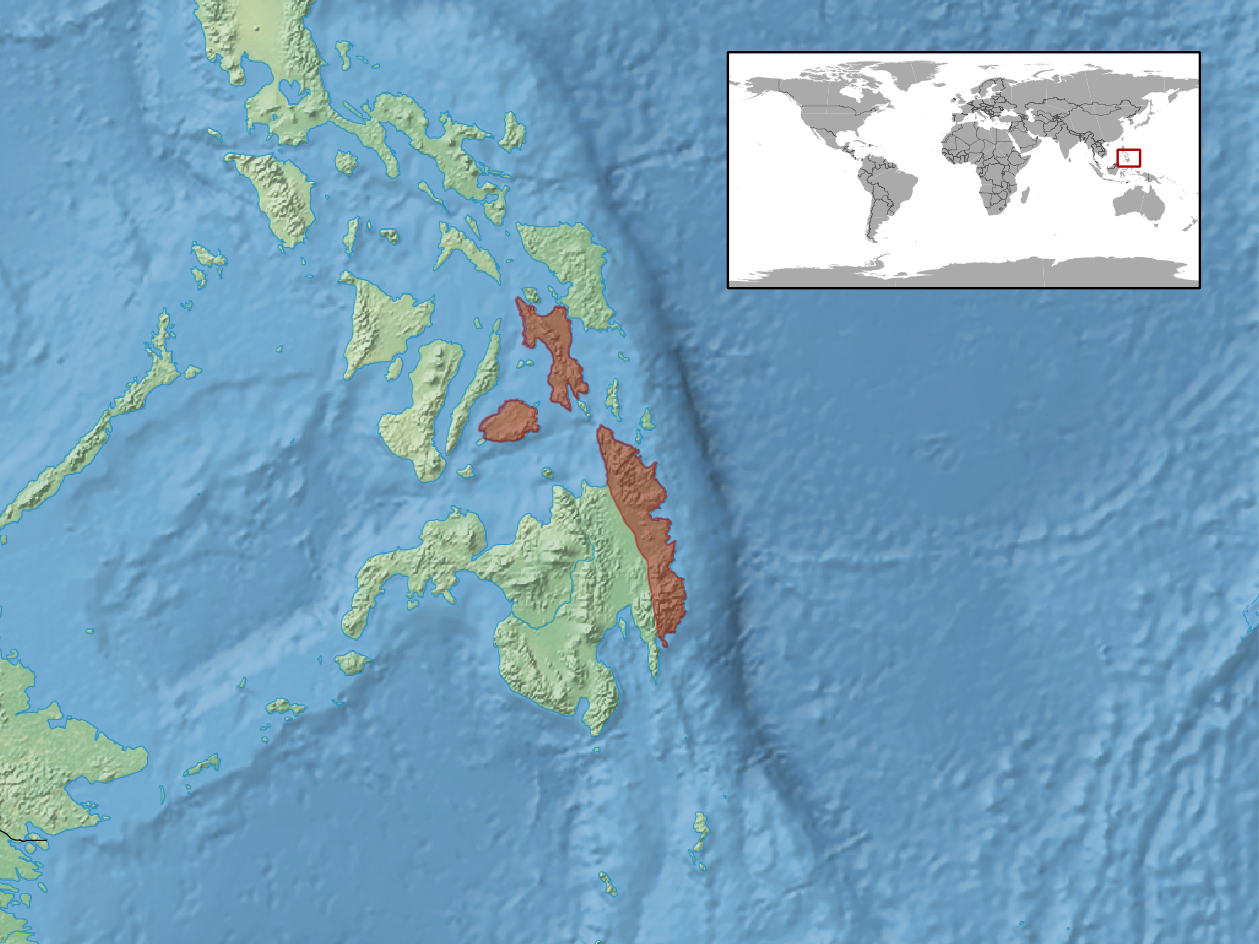 geographic distribution of Sphenomorphus mindanensis (IUCN) syn Pinoyscincus mindanensis (RDB)